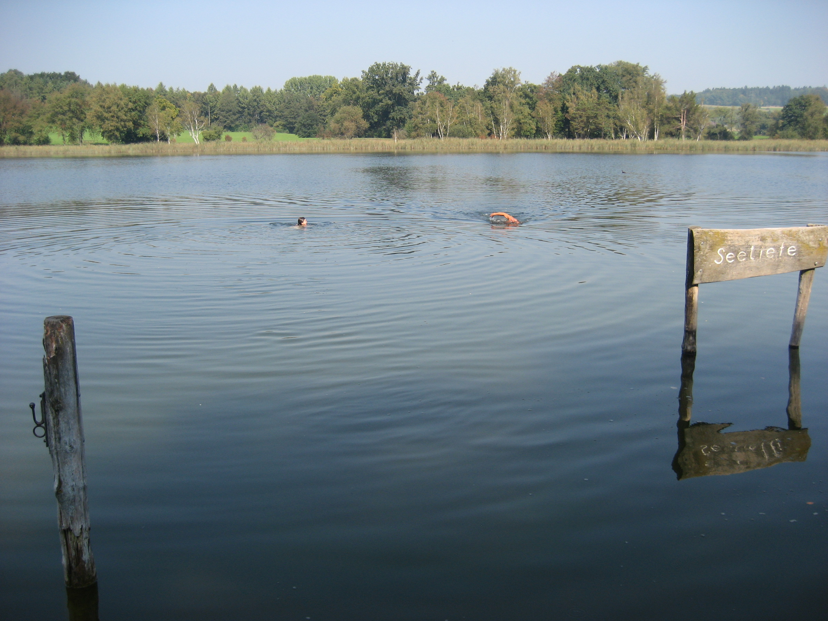 Katzensee Zurich, view from the public lido.